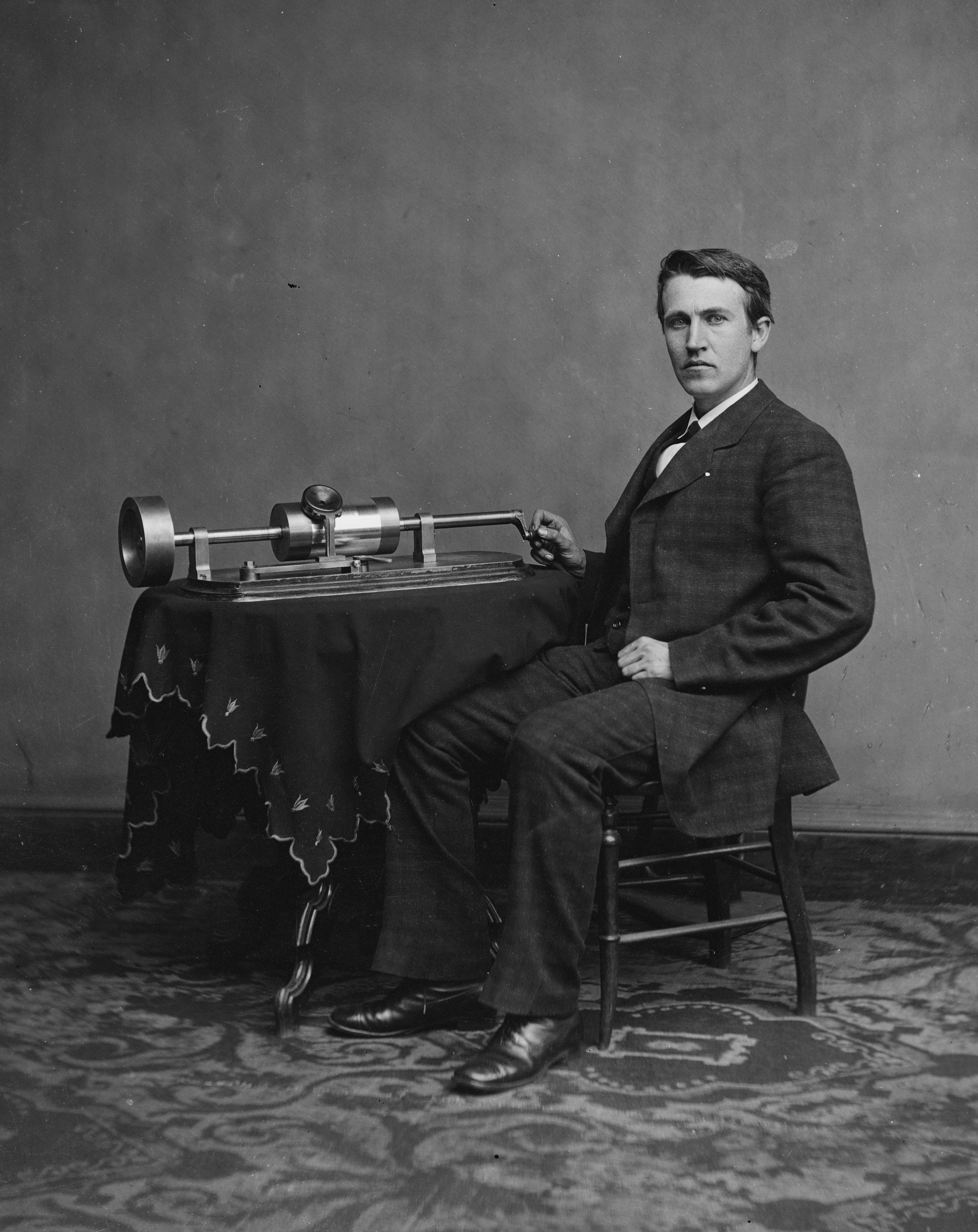 Thomas Edison and his early phonograph. Cropped from Library of Congress copy.